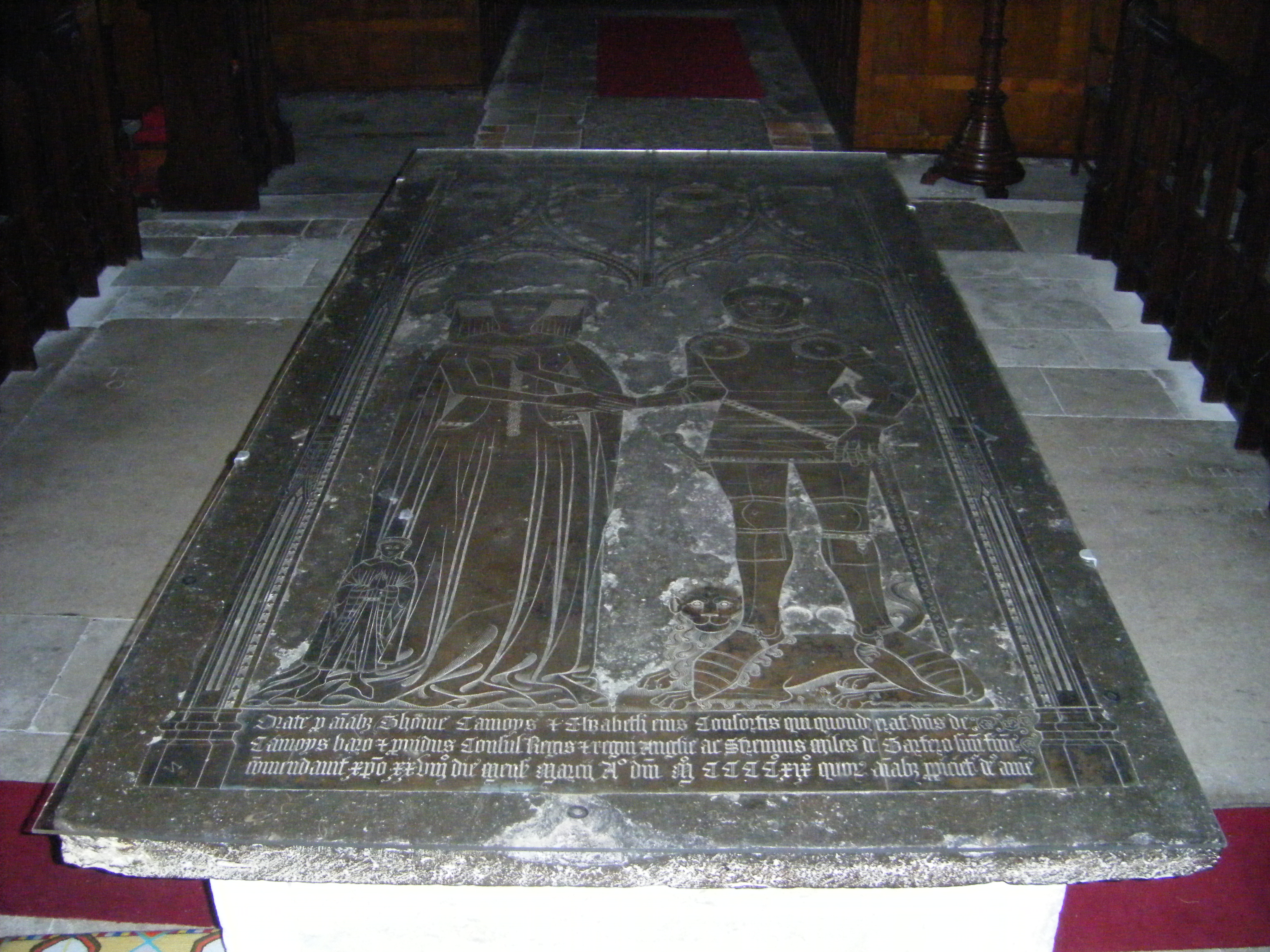 Monumental brass of Thomas de Camoys, 1st Baron Camoys (c. 1351 – 28 March 1421), KG, and of his second wife Elizabeth Mortimer. St. George's church, Trotton, West Sussex, England. Inscription at bottom: "Orate pro a(n)i(ma)bus Thom(a)e Camoys et Elizabeth(ae) eius consortis, qui quond(am) erat d(omi)n(u)s de Camoys baro et prude(n)s Consul Regis et regni Angli(a)e et strenuus Miles de Gartero suu(m) fine com(m)endavit Xpo xxviii die mens(is) Marcii A(nno) D(omi)ni M° CCCC° XIX° quor(um) a(n)i(m)a(bus)[bz] p(ro)piciet(ur) Deus, Am(e)n. ("Pray ye all for the souls of Thomas Camoys and of Elizabeth his consort, who once was Lord of Camoys, a baron and a wise counsellor of the king and of the kingdom of England and a vigourous Knight of the Garter. He commended his end to Christ (Xpo, Christo, Chi-Rho symbol) on the 28th day of the month of March in the year of our Lord 1419. On the souls of whom may God be favourably inclined, Amen"). (Collectanea Topographica et Genealogica, Volume 5, Page 280, note k[1]). Reproduction published in Dallaway's Rape of Chichester, p.224